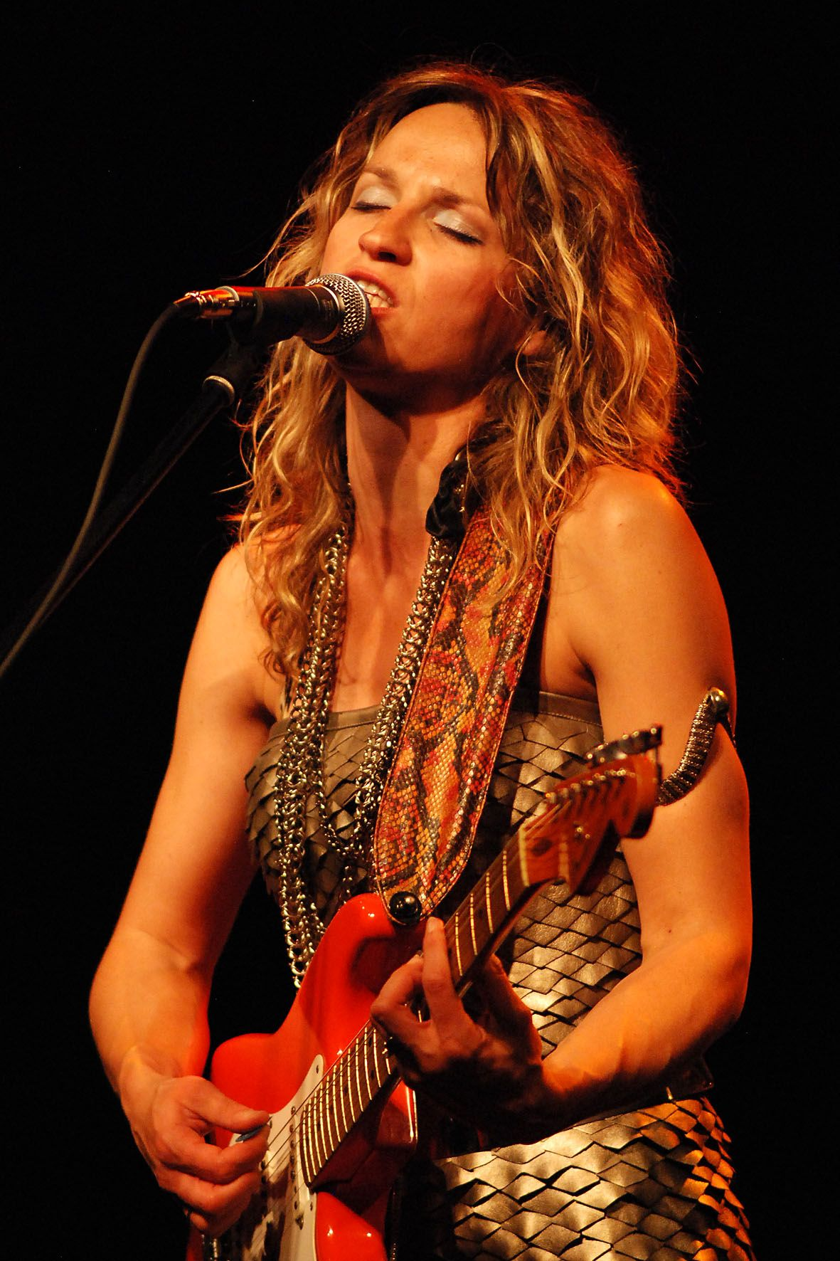 Ana Popovic (2011)